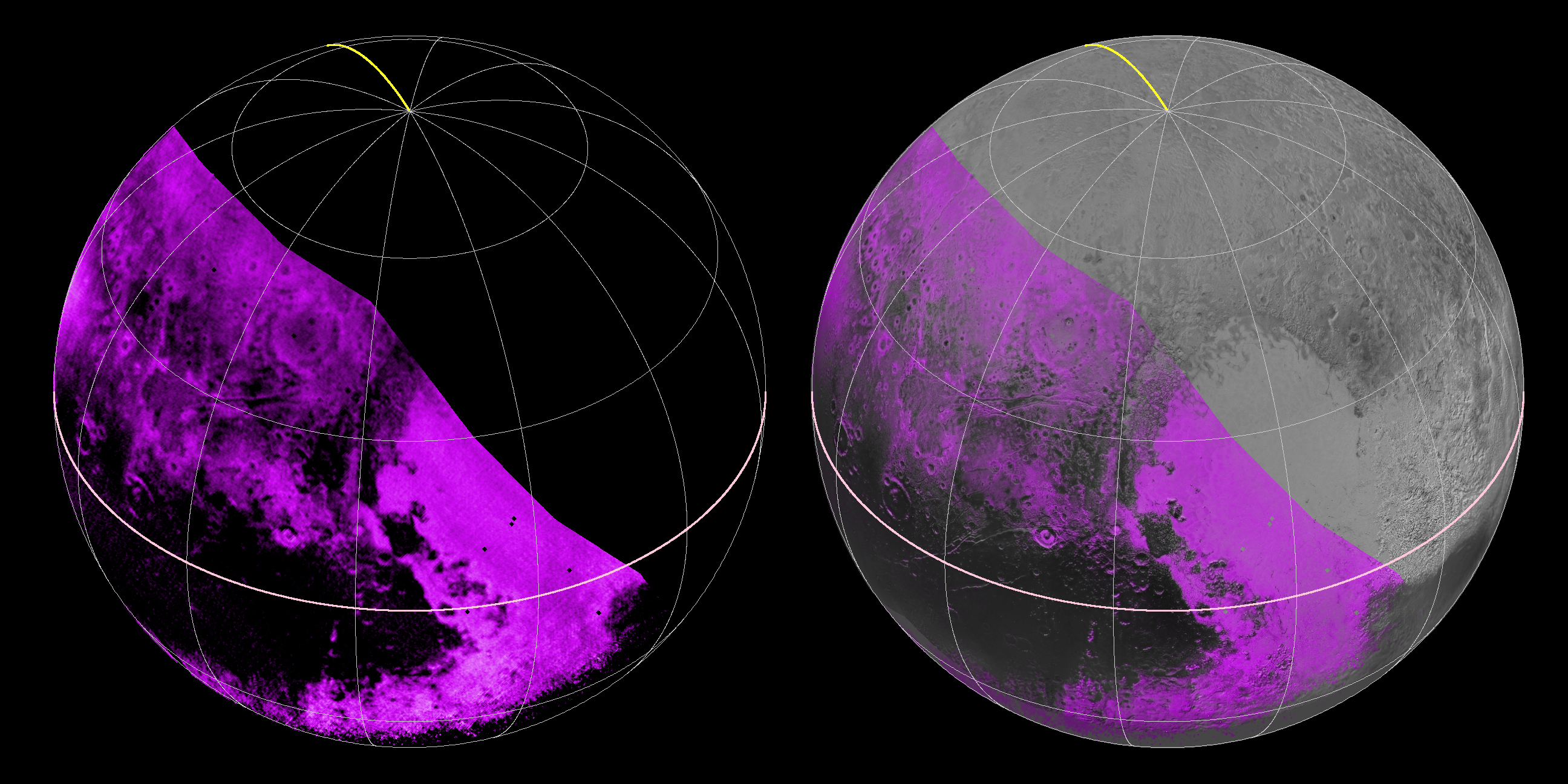 Infrared Spectrometer on NASA’s New Horizons Spacecraft Mapped Methane Ice on Pluto. The Ralph/LEISA infrared spectrometer on NASA’s New Horizons spacecraft mapped compositions across Pluto’s surface as it flew by on July 14. On the left, a map of methane ice abundance shows striking regional differences, with stronger methane absorption indicated by the brighter purple colors here, and lower abundances shown in black. Data have only been received so far for the left half of Pluto’s disk. At right, the methane map is merged with higher-resolution images from the spacecraft’s Long Range Reconnaissance Imager (LORRI).